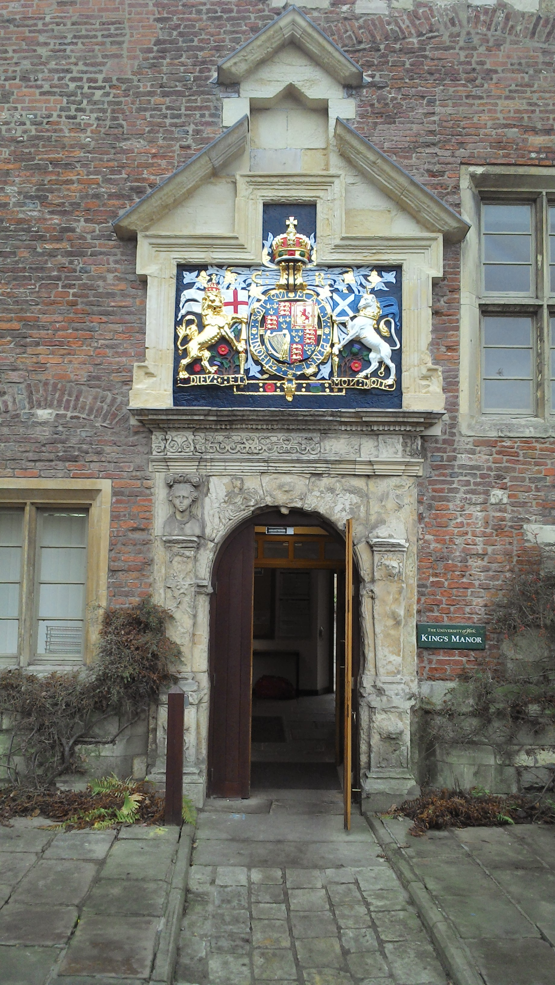 The newly restored coat of arms above the main entrance to King's Manor, York.